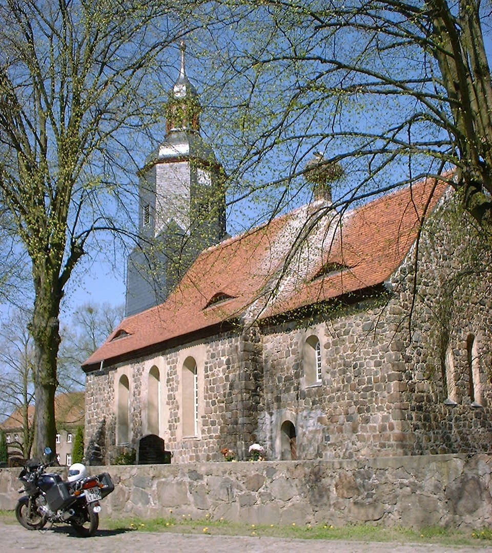 Church in Niedergörsdorf-Seehausen in Brandenburg, Germany